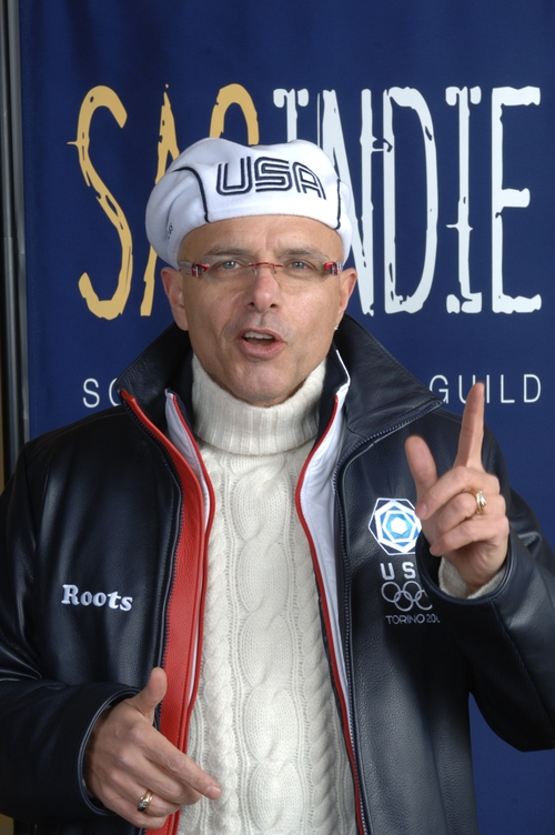 Joe Pantoliano at the Sundance Film Festival